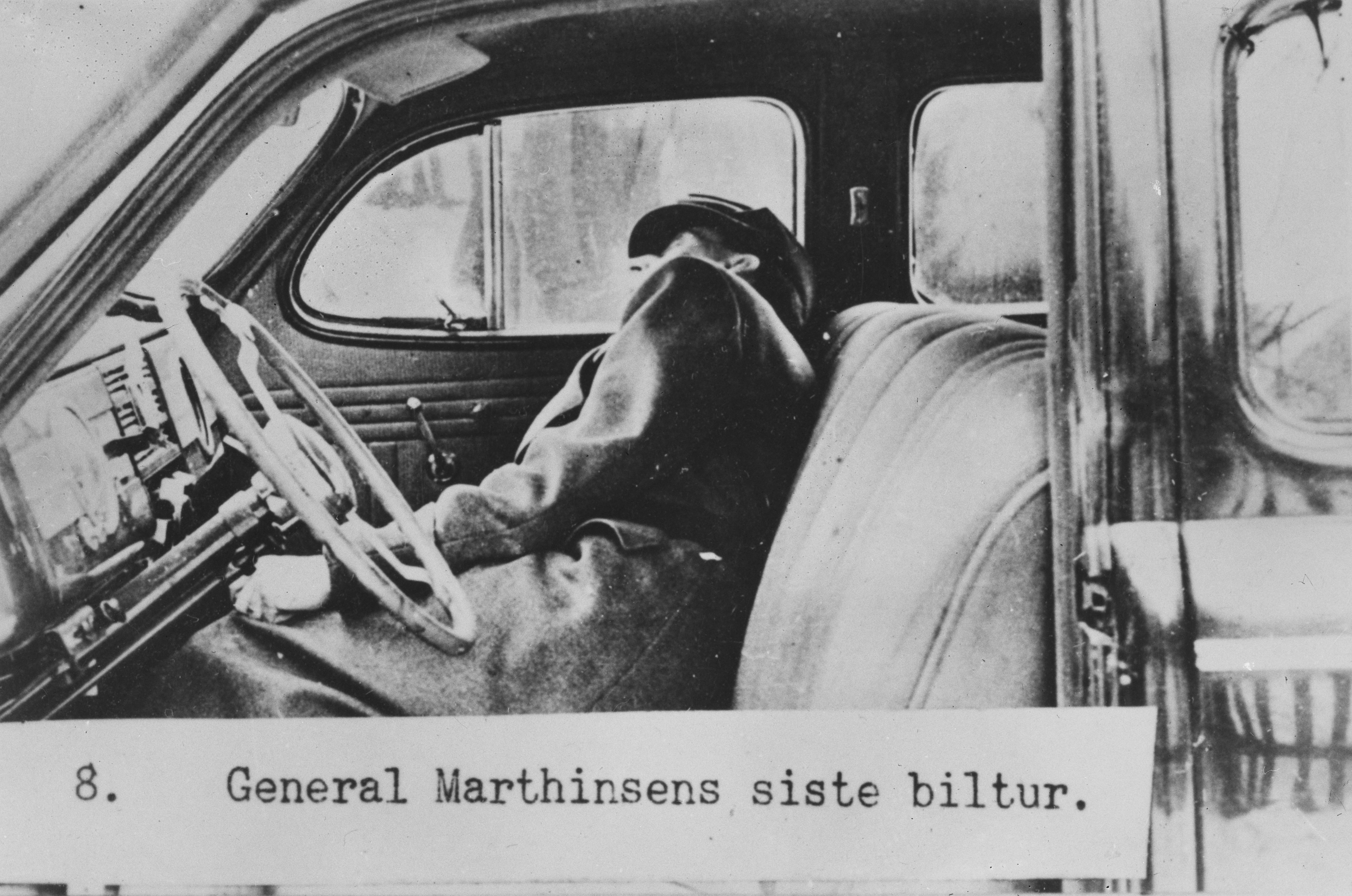 "The end of leading Germans and members of the Nasjonal Samling (NS, Norwegian fascist party)." A series of photos of former Nazi leaders and collaborators in German occupied Norway during World War II showing them at the end of the war or after the liberation in 1945: 8. Karl Marthinsen, the Norwegian commander of the Nazi controlled Statspolitiet (National Police), lying dead in his car, assassinated by a Norwegian resistance group on February 8th, 1945.